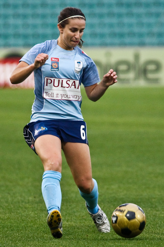 Servet Uzunlar playing for Sydney FC in the W-League against Adelaide United.